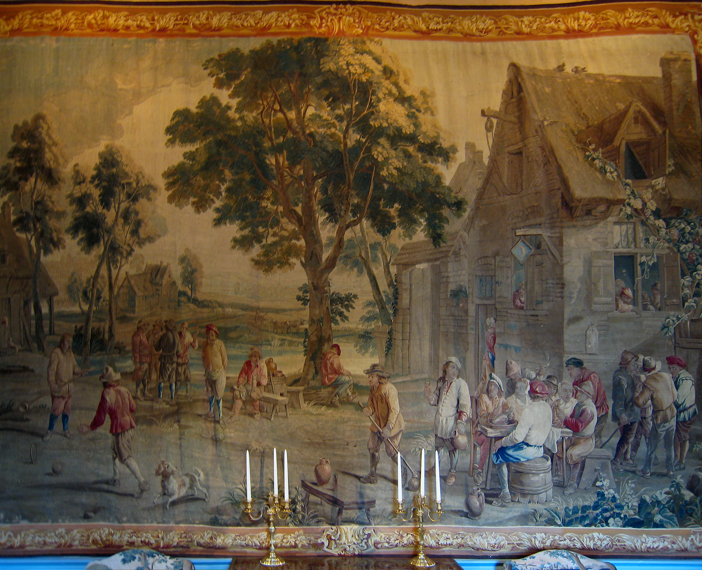 Bowls players